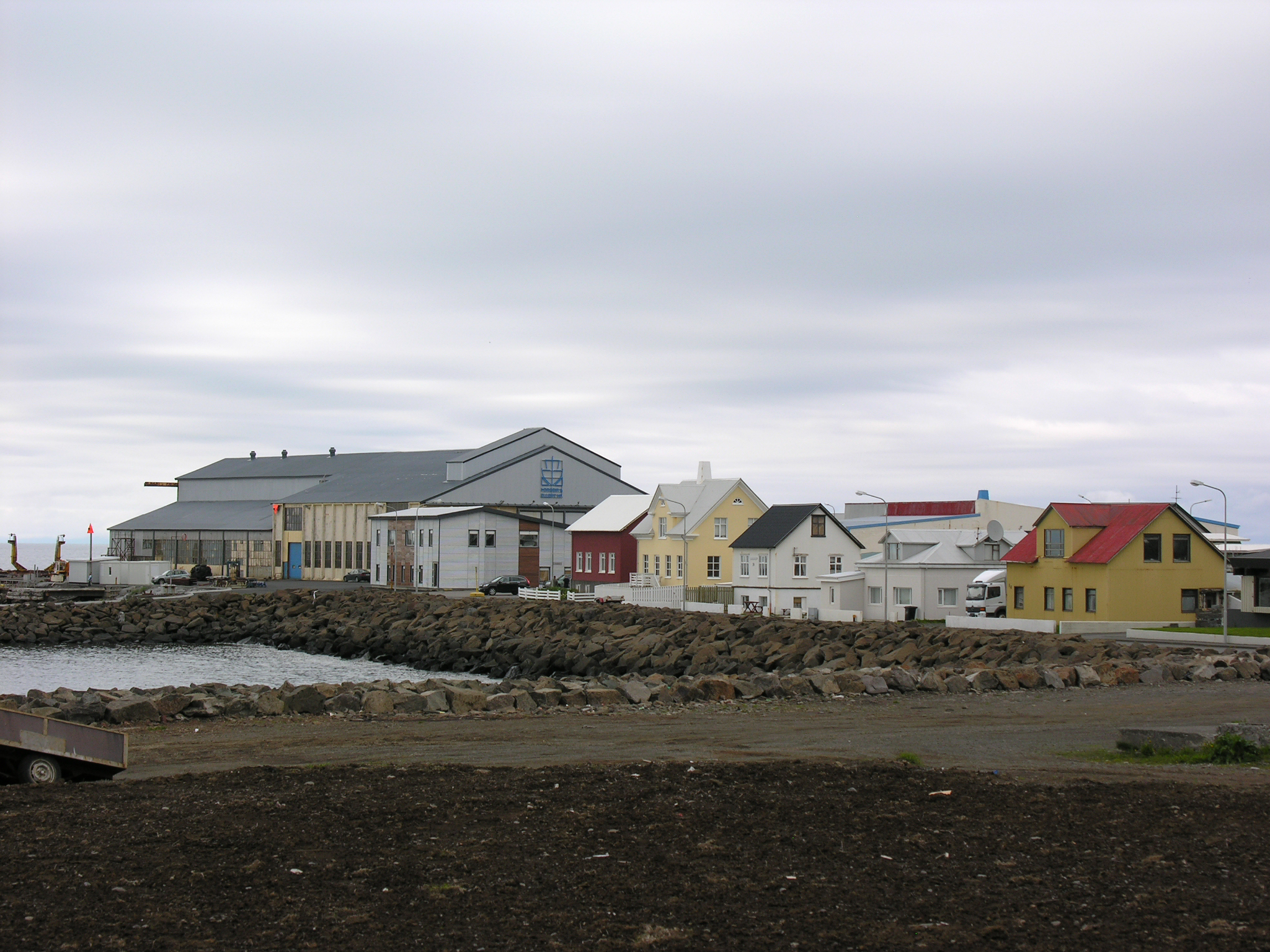 Iceland, Akranes